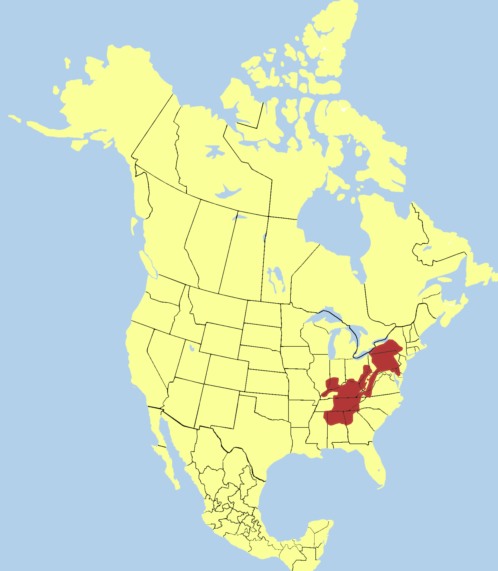 The Distribution of the Hellbender